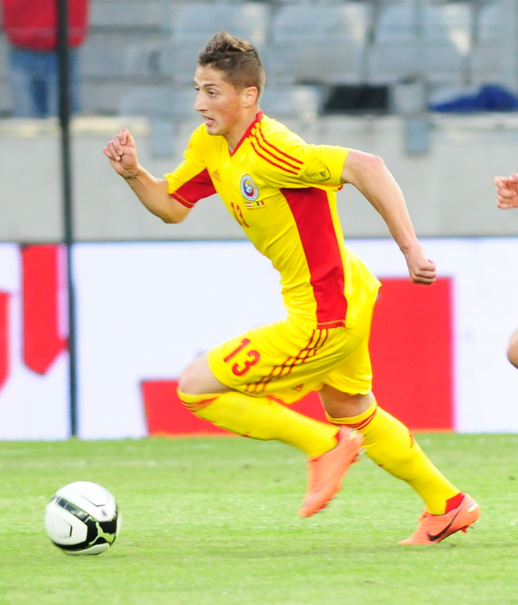 Exhibition game Austria vs. Romania at 5st. June 2012